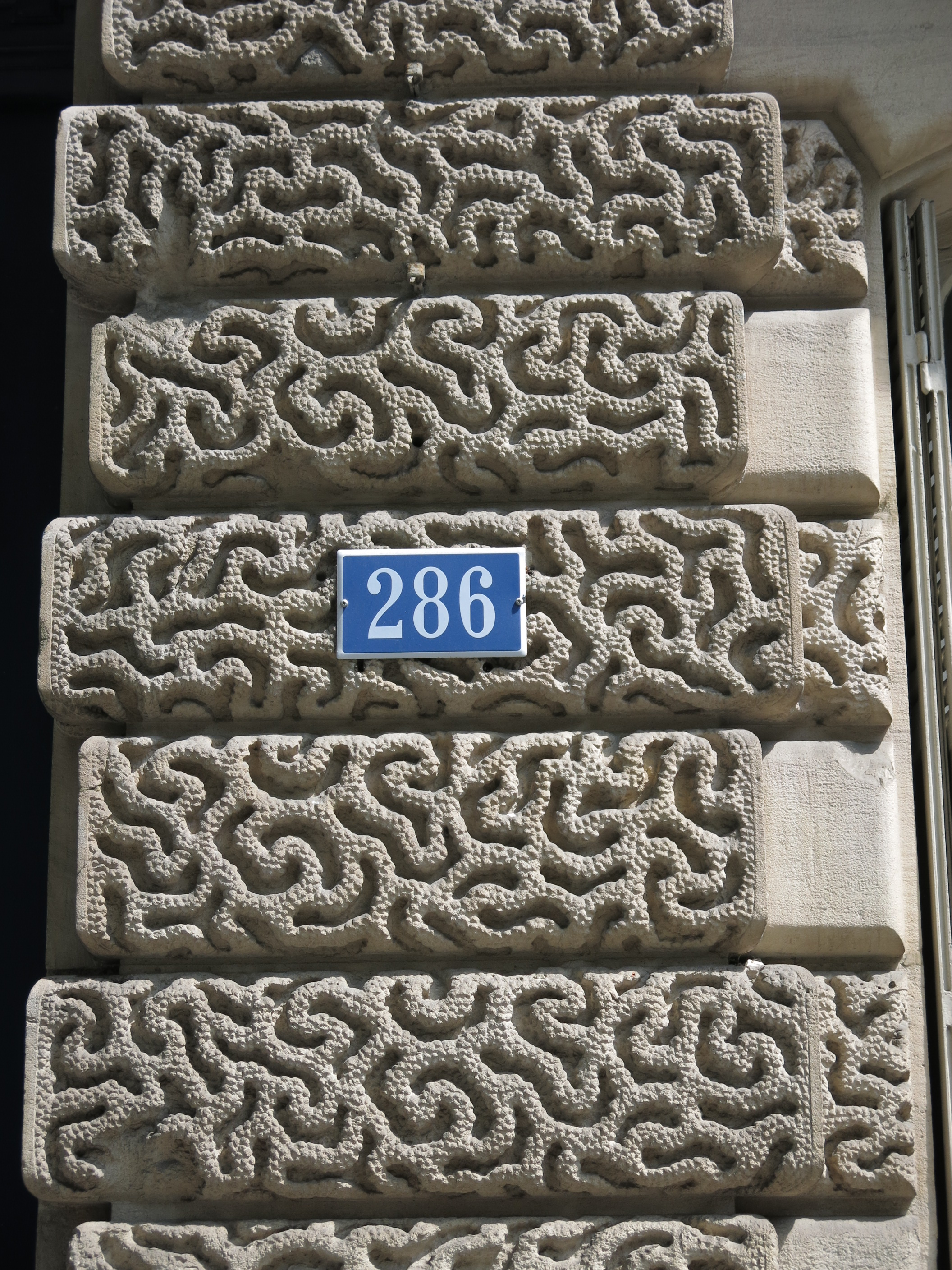 Detail of the Building 286 boulevard Saint-Germain, Paris 7th arrond. (France).